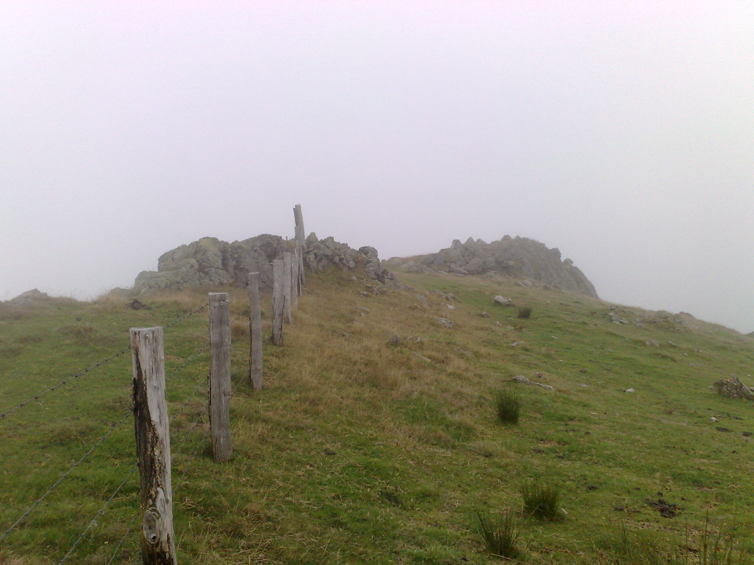 Top of mt. Argarai. Teh fence marks the Fr-Sp state border. On the left Luzaide (es Valcarlos, Higher Navarre), on the right Banka (fr Banca, Lower Navarre), Basque Country.